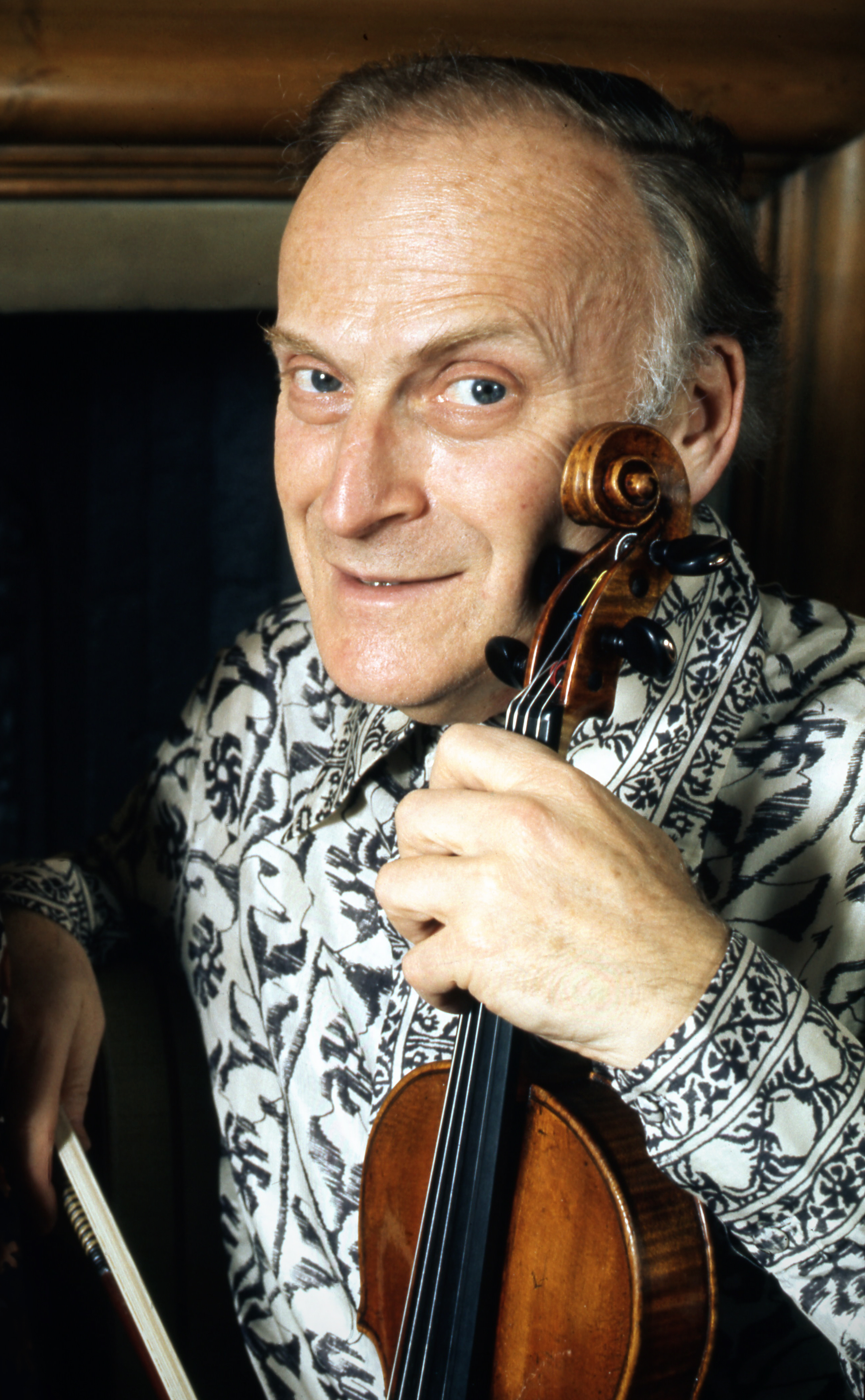 Portrait of Yehudi Menuhin